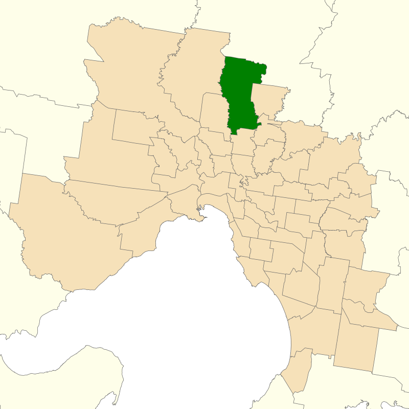 Location of the Victorian electoral district of Thomastown (dark green) in the Greater Melbourne area.